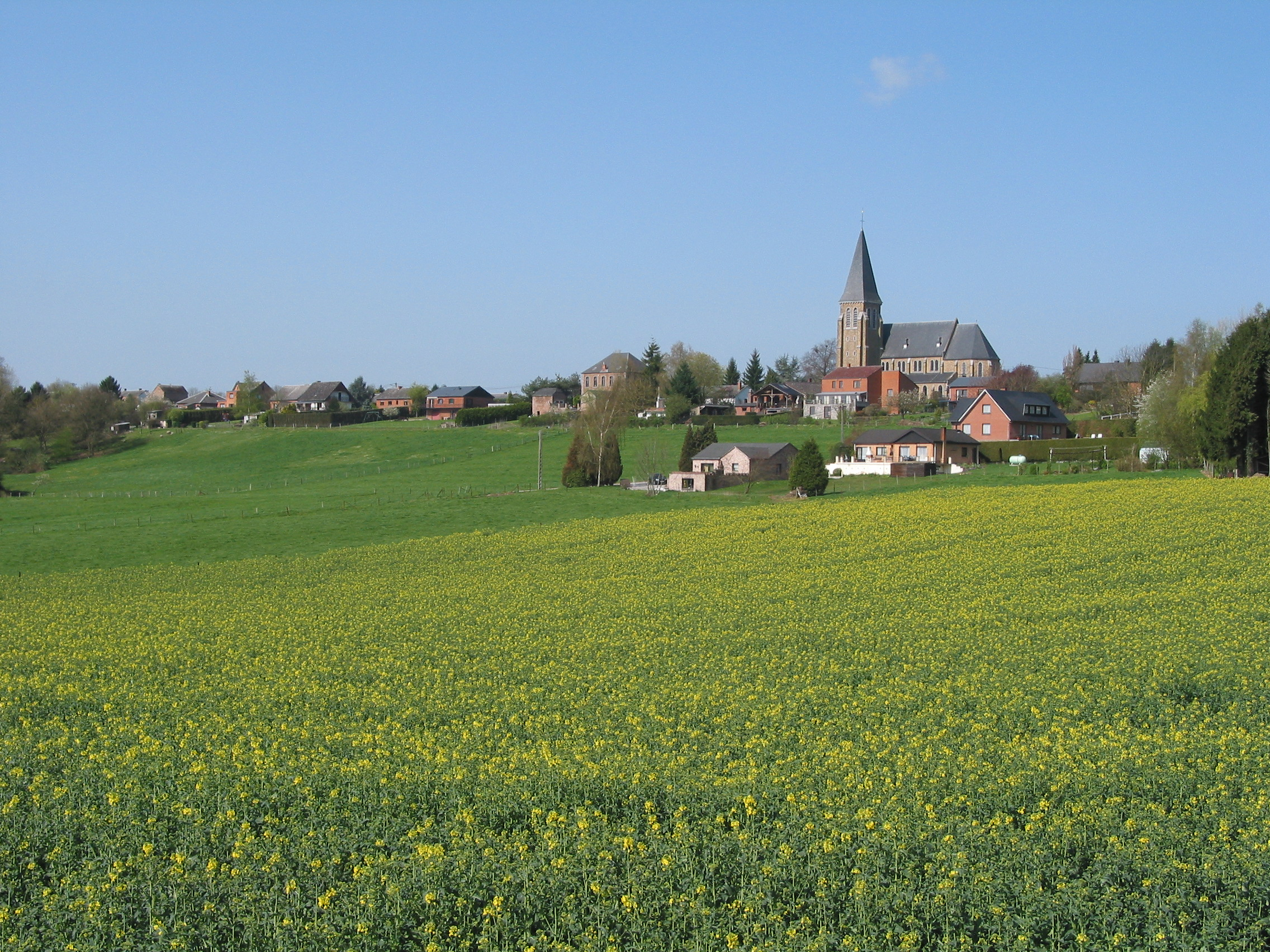 Sovet (Belgium), the colza field.